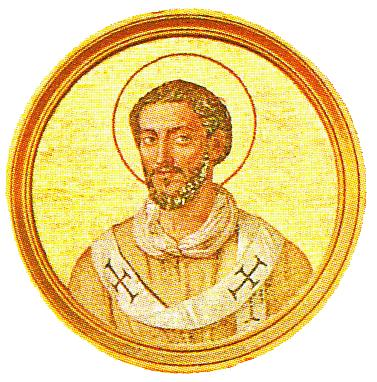 Pope Caius